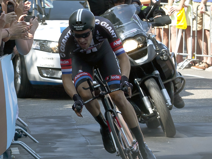 A very popular Dutch rider and very good time trial rider. Ended 4th place today: a little disappointing. Contre la Montre (time trial), the first stage of the Tour de France 2015. 18,3 km's in Utrecht, Netherlands.